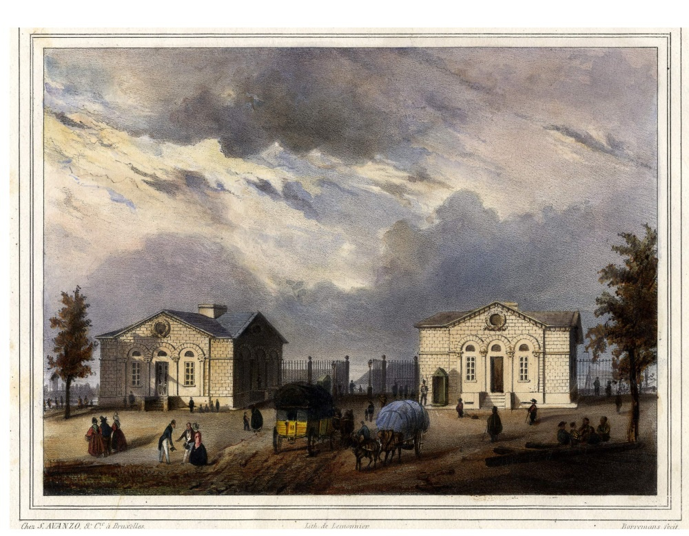 Litho of Ninove city gate in Brussels by Antoine Lemonnier after a drawing by Henri Borremans (Centre d'Information, de Documentation et d'Etude du Patrimoine)